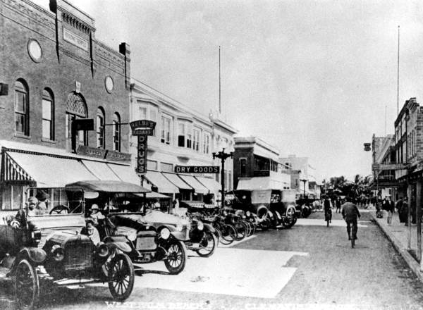 View along Clematis Street - West Palm Beach, Florida (1916)